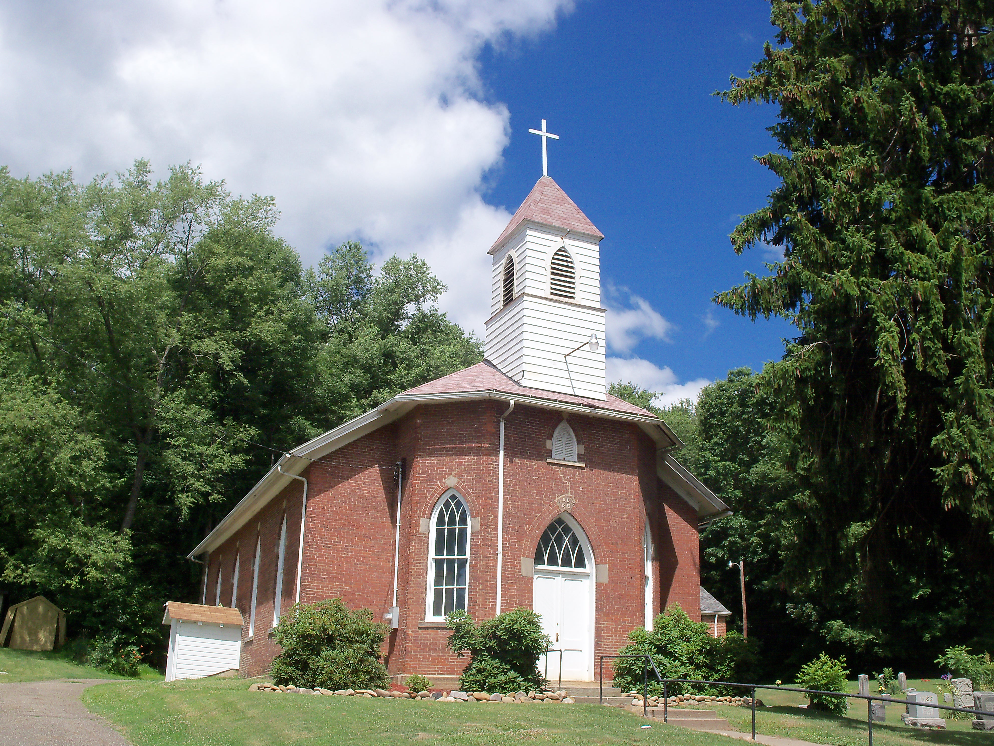 Millheim UCC (1879) south of Lakemore, Ohio